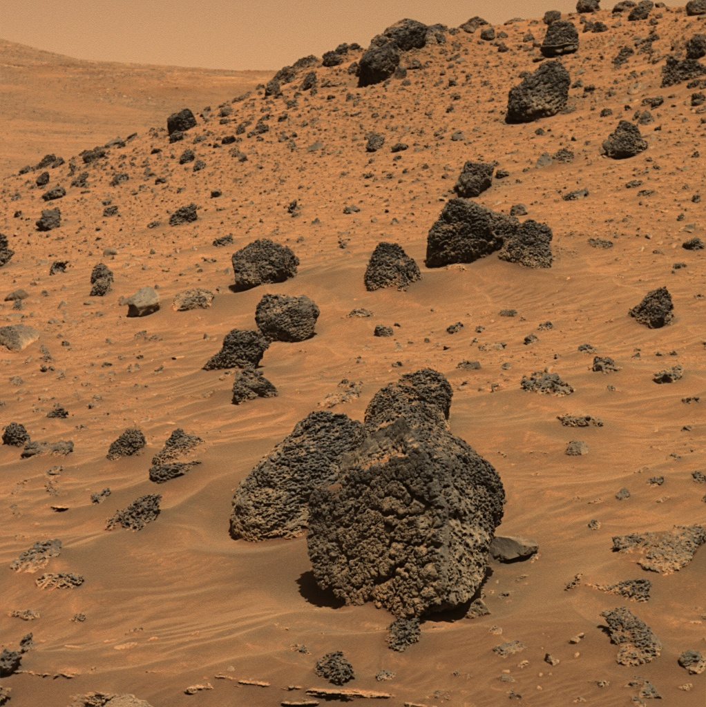 As NASA's Mars Exploration Rover Spirit began collecting images for a 360-degree panorama of new terrain, the rover captured this view of a dark boulder with an interesting surface texture. The boulder sits about 40 centimeters (16 inches) tall on Martian sand about 5 meters (16 feet) away from Spirit. It is one of many dark, volcanic rock fragments—many pocked with rounded holes called vesicles—littering the slope of "Low Ridge." The rock surface facing the rover is similar in appearance to the surface texture on the outside of lava flows on Earth. Spirit took this approximately true-color image with the panoramic camera on the rover's 810th sol, or Martian day, of exploring Mars (April 13, 2006), using the camera's 753-nanometer, 535-nanometer, and 432-nanometer filters. Image Credit: NASA/JPL-Caltech/Cornell/NMMNH